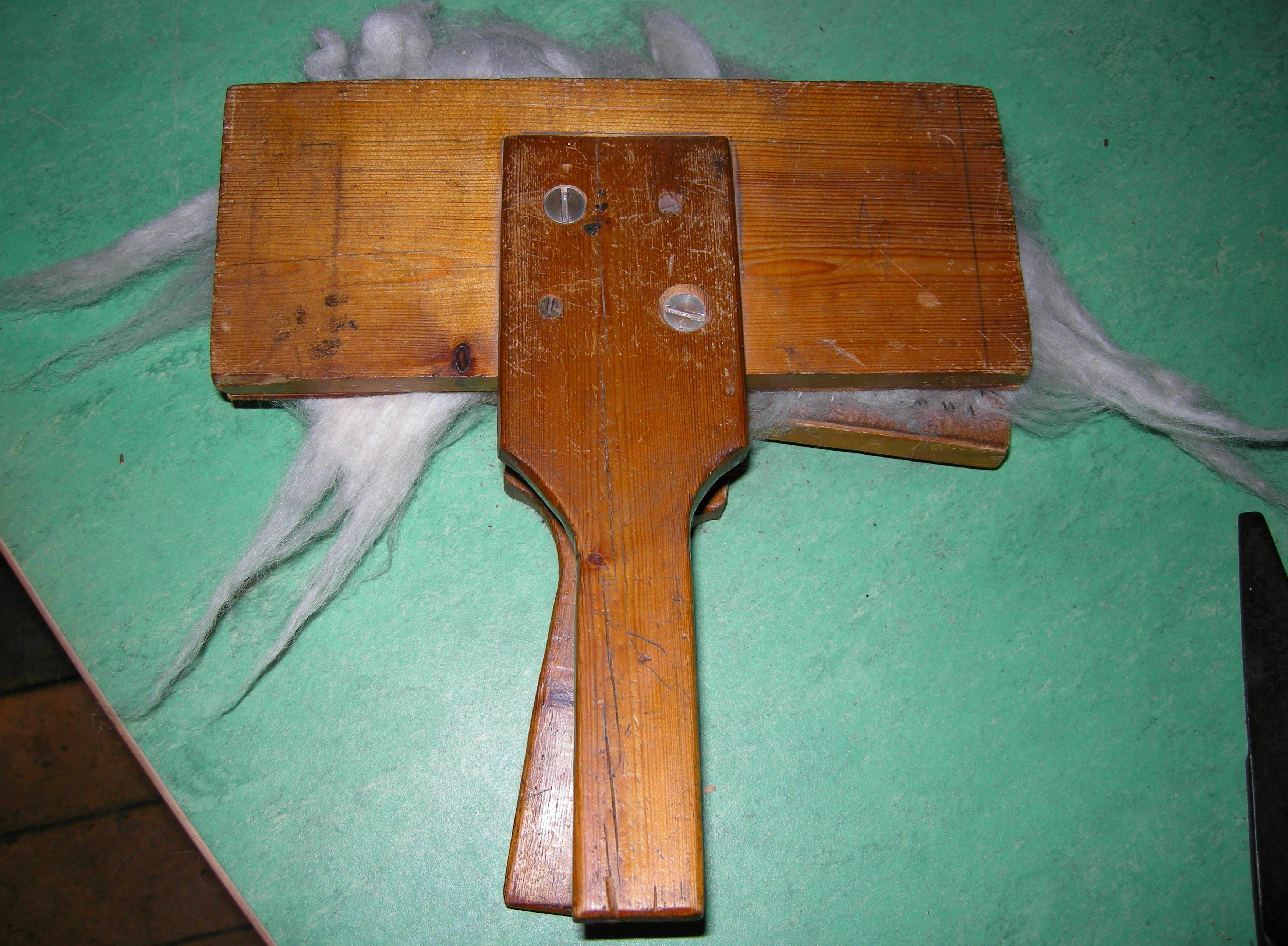 Hand carding tool in Bradford Industrial Museum, Bradford, West Yorkshire, England.